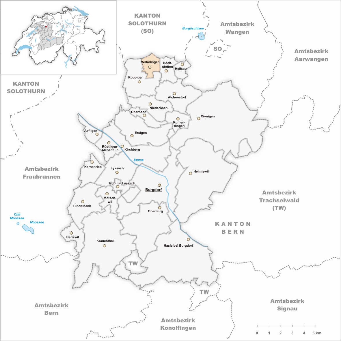 Municipality Willadingen